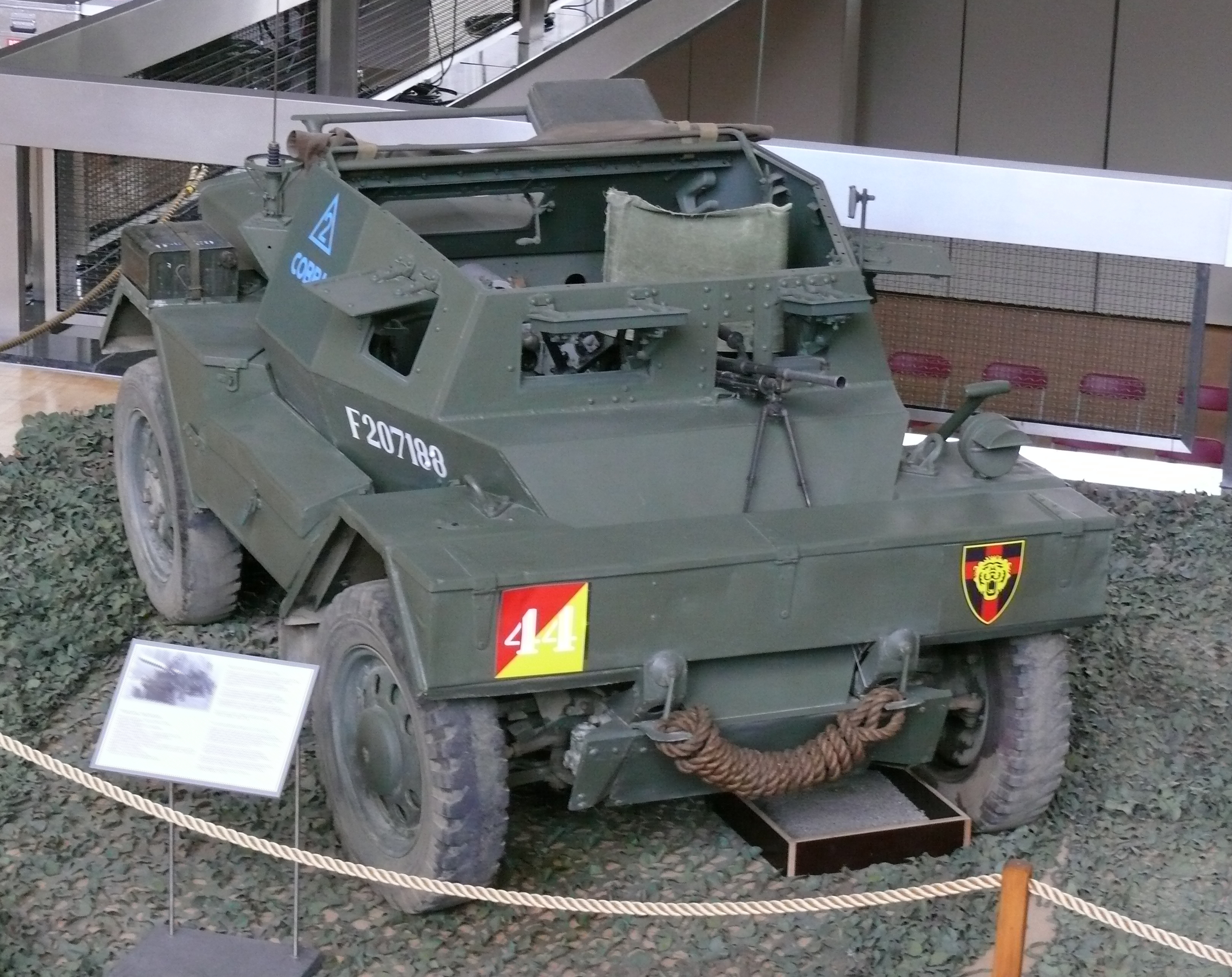 Daimler Scout Car MkII, known in service as the Dingo (after the Australian wild dog), was a British light fast 4WD reconnaissance vehicle, in the Royal Military Museum at the Jubelpark, Brussels.